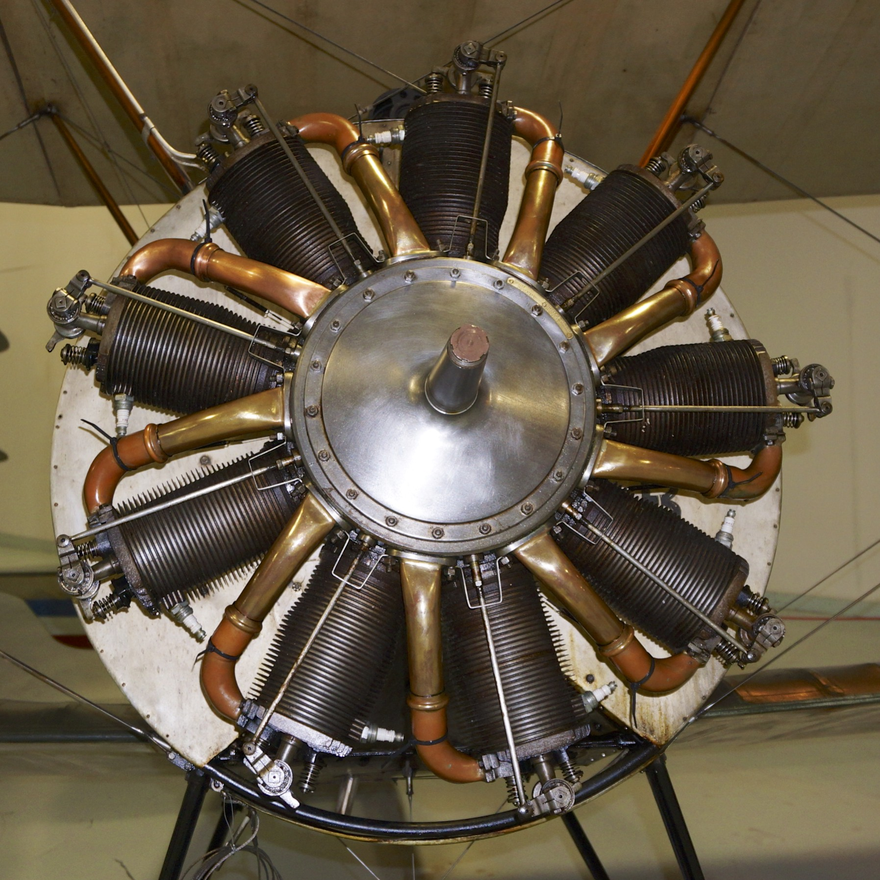 Royal Navy. Fleet Air Arm Museum . Yeovilton. Somerset. UK Sopwith Pup 50 hp Gnome rotary engine